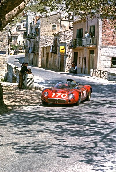 Andrea de Adamich and Jean Rolland in Alfa Romeo T33 at 1967 Targa Florio (May 14), they did not finish due to mechanical problems.[1]